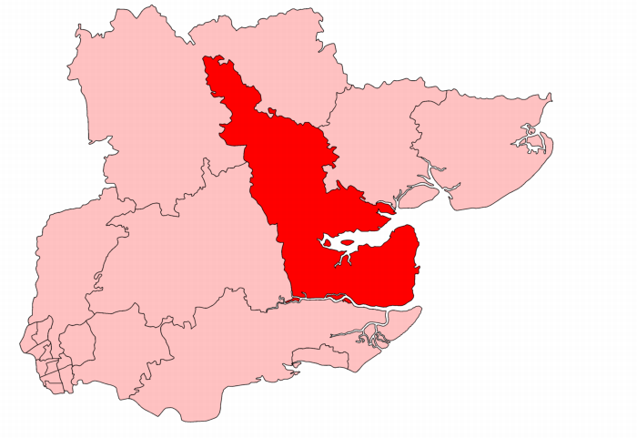 A map of Maldon constituency within Essex, as it existed from 1918 to 1945.